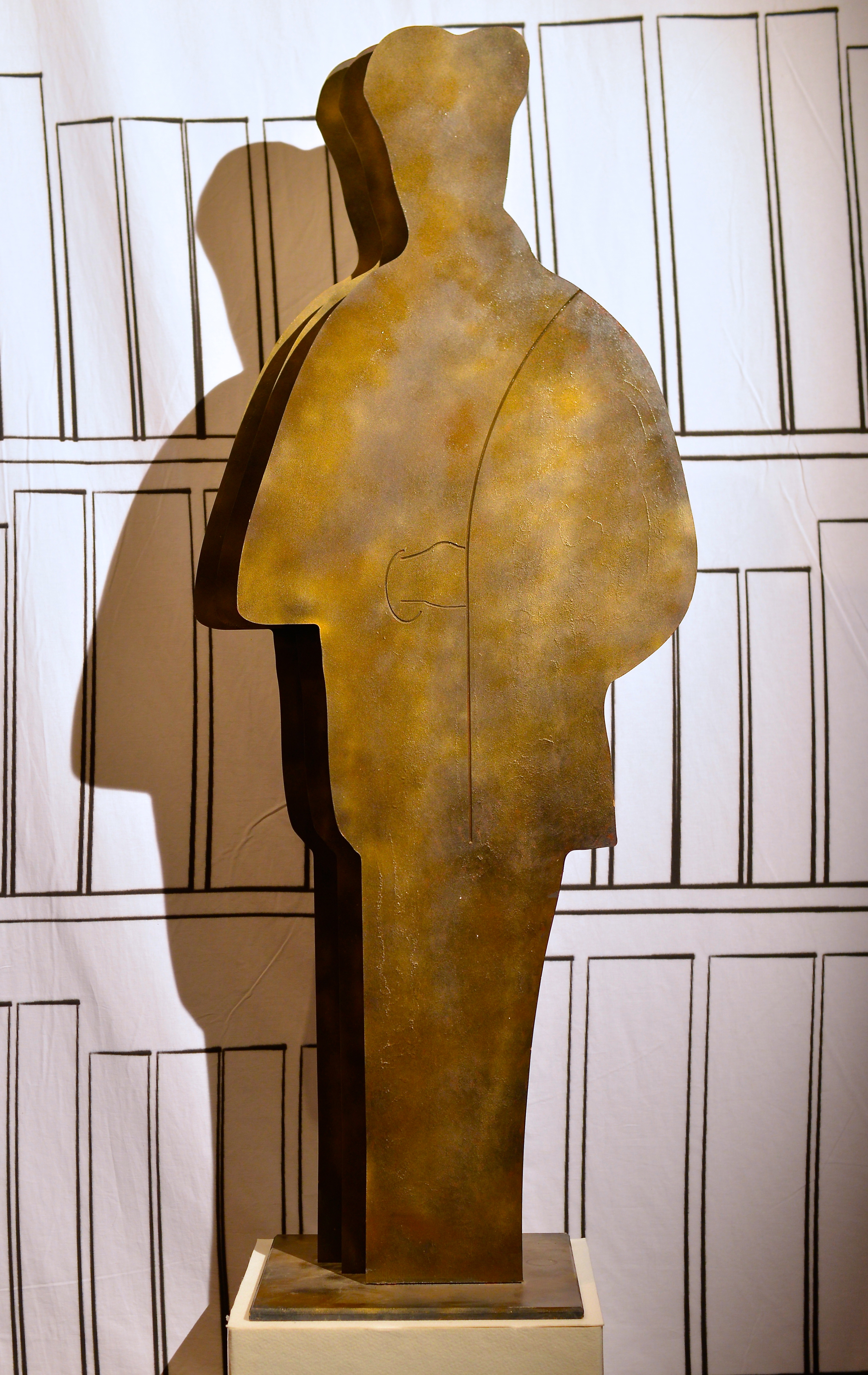 August statuette.